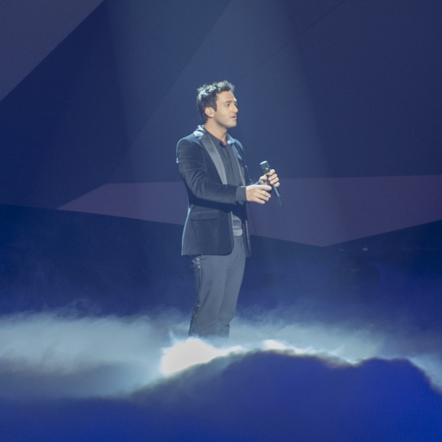 Nodi Tatishvili and Sophie Gelovani representing Georgia with the song "Waterfall" during the second dress rehearsal of the second semi final of the Eurovision Song Contest 2013 in Malmö. (Help translate this text)